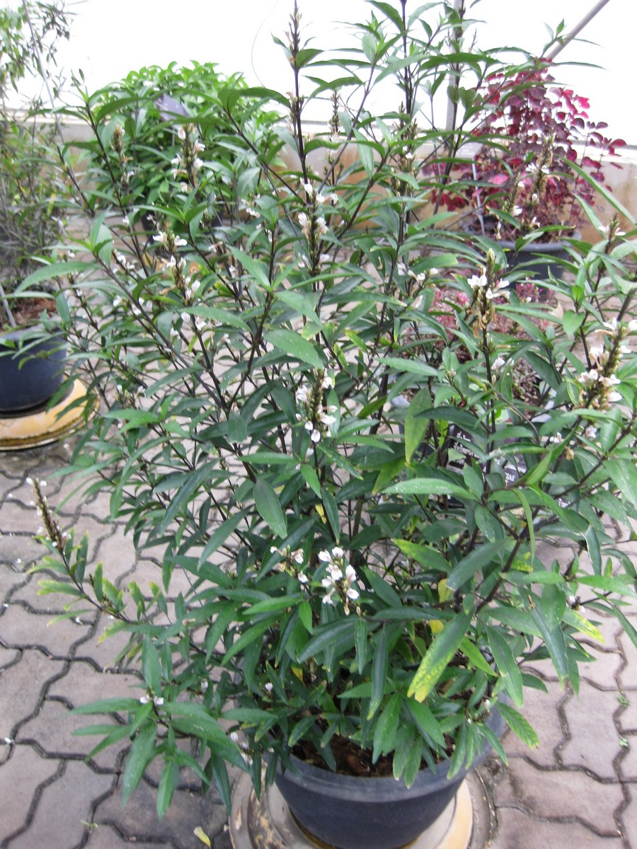 Photographed at the Queen Sirikit Botanic Garden (Chiang Mai Province, Thailand) in March